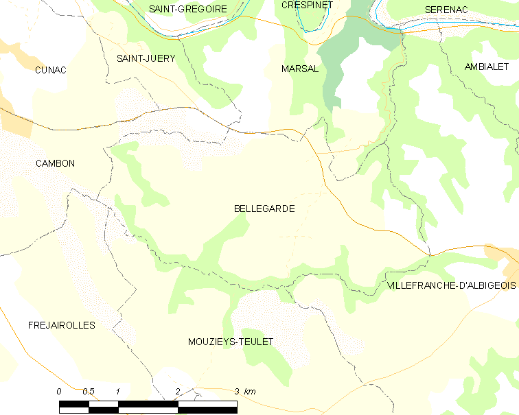 Map of French municipality Bellegarde